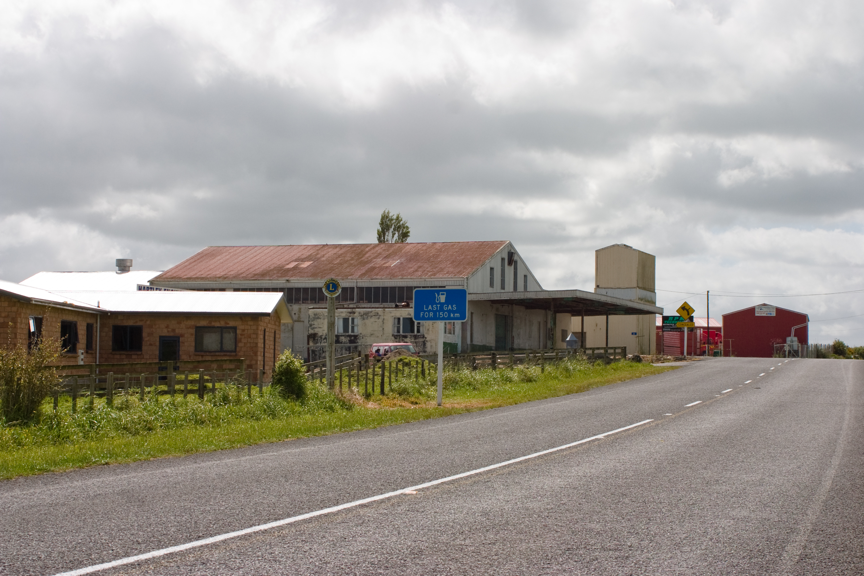 "Last gas for 150km" Toko, the first town on SH43 out of Stratford, Taranaki, New Zealand